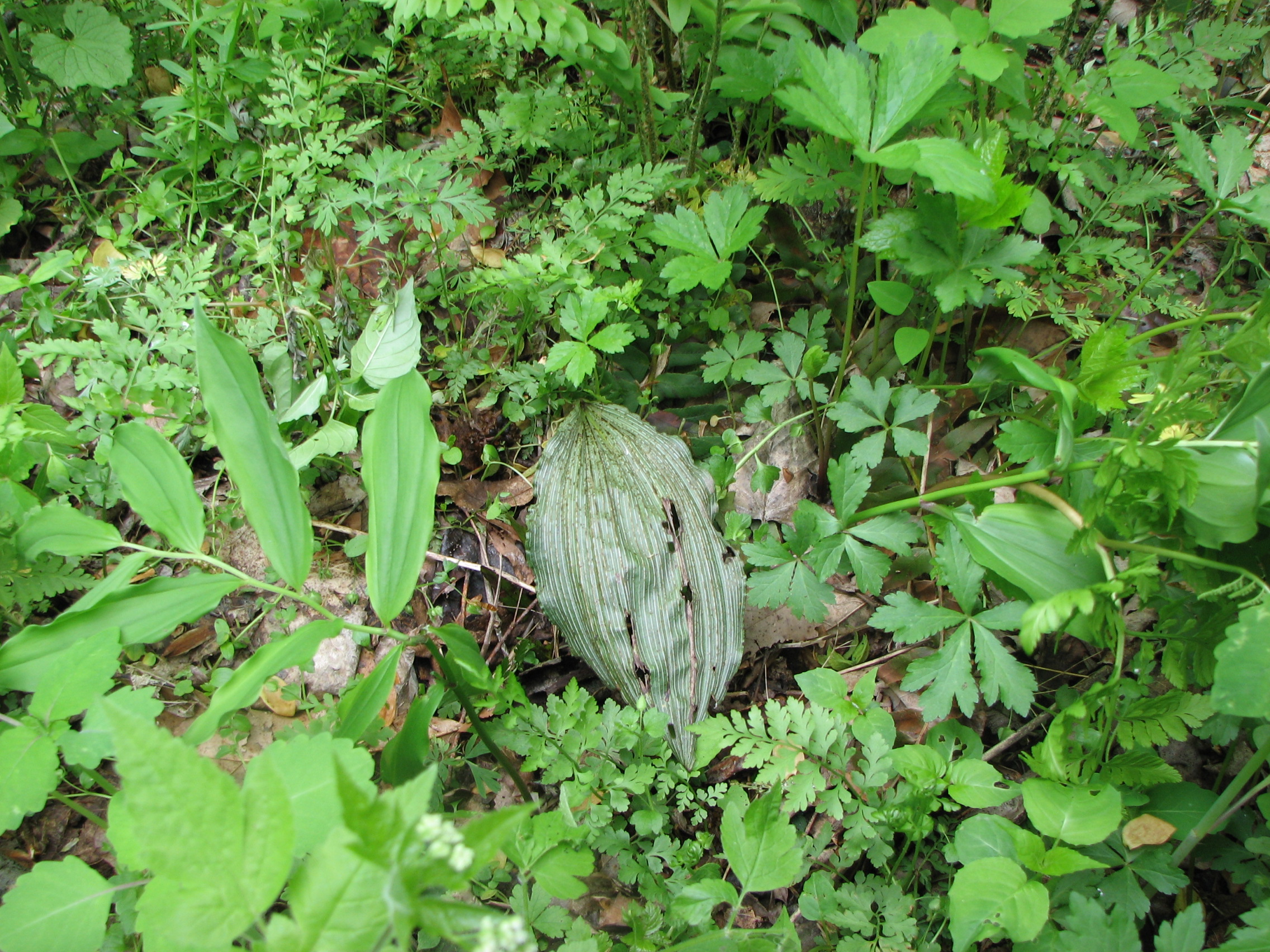 Green-and-white-striped leaf of puttyroot (Aplectrum hyemale) at Shenks' Ferry, Lancaster County, Pennsylvania, USA.